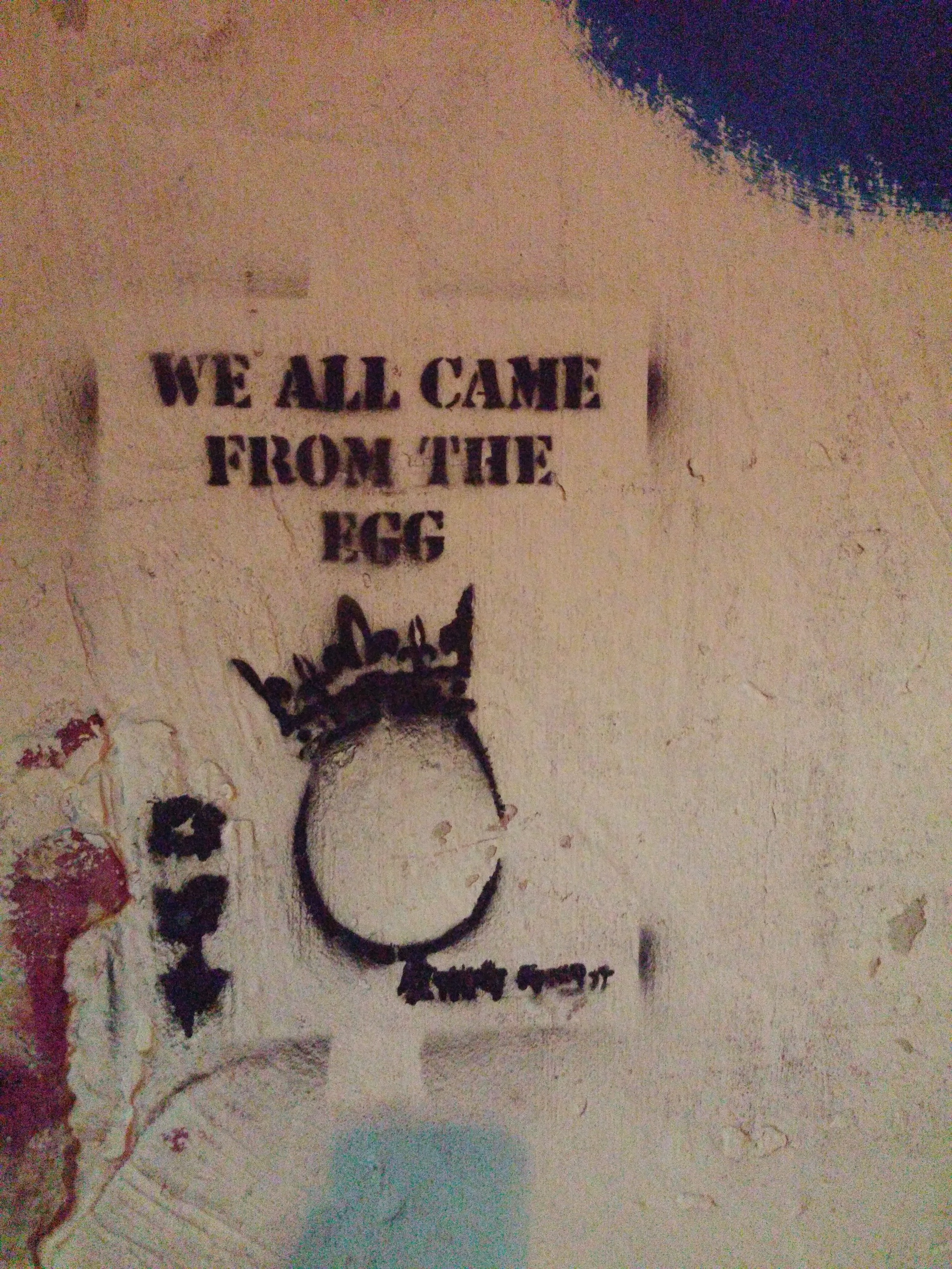 we all came from the egg - Graffiti in Israel